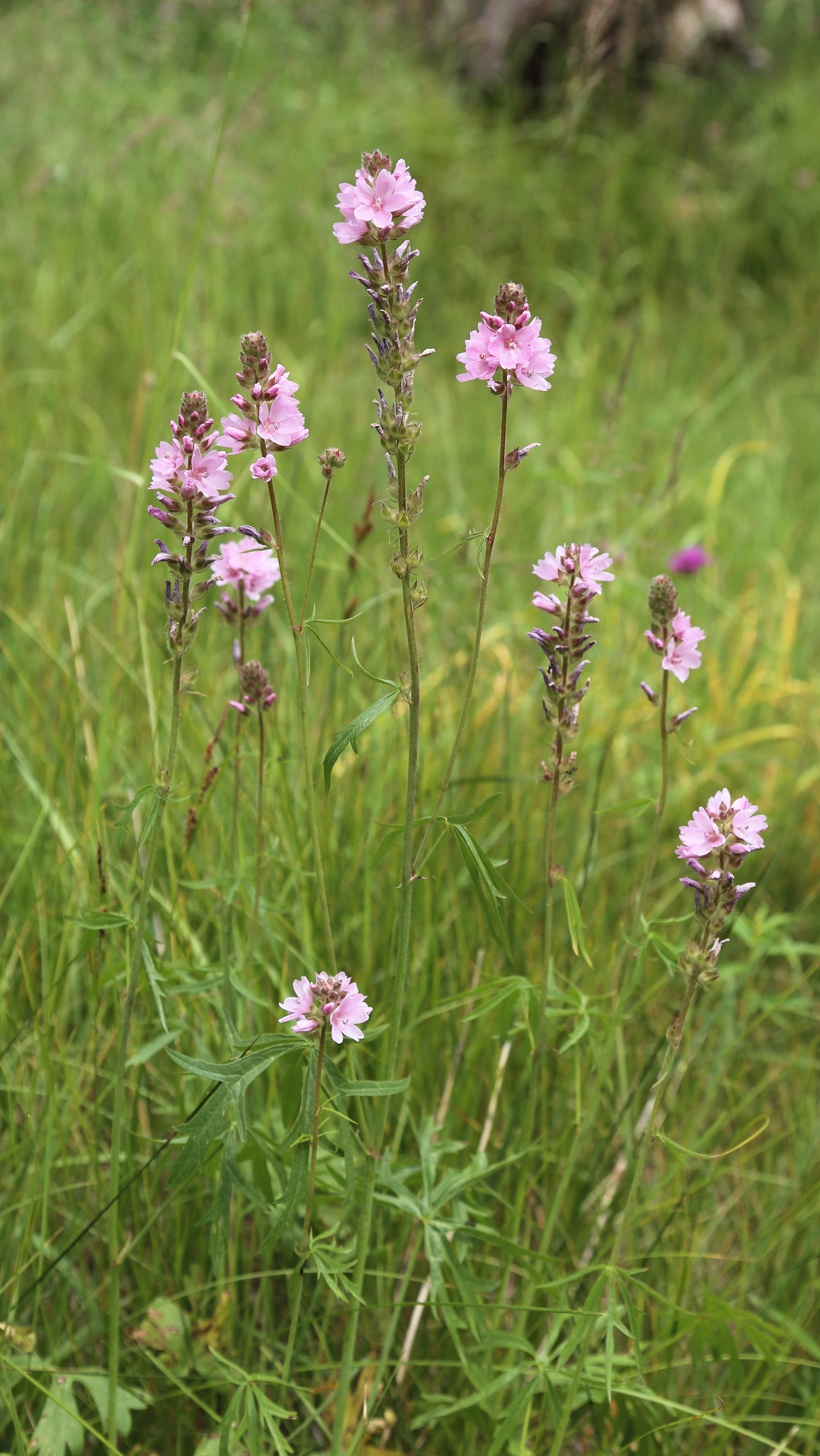 Spicate variety of Oregon checker bloom (Sidalcea oregano sap. spicata), multi-stalked plant with flower heads and basal and stem leaves. In small meadow at Pine Creek trailhead, altitudet 9,300 ft (2,800 m), just outside John Muir Wilderness, Sierra Nevada mountains, California USA.